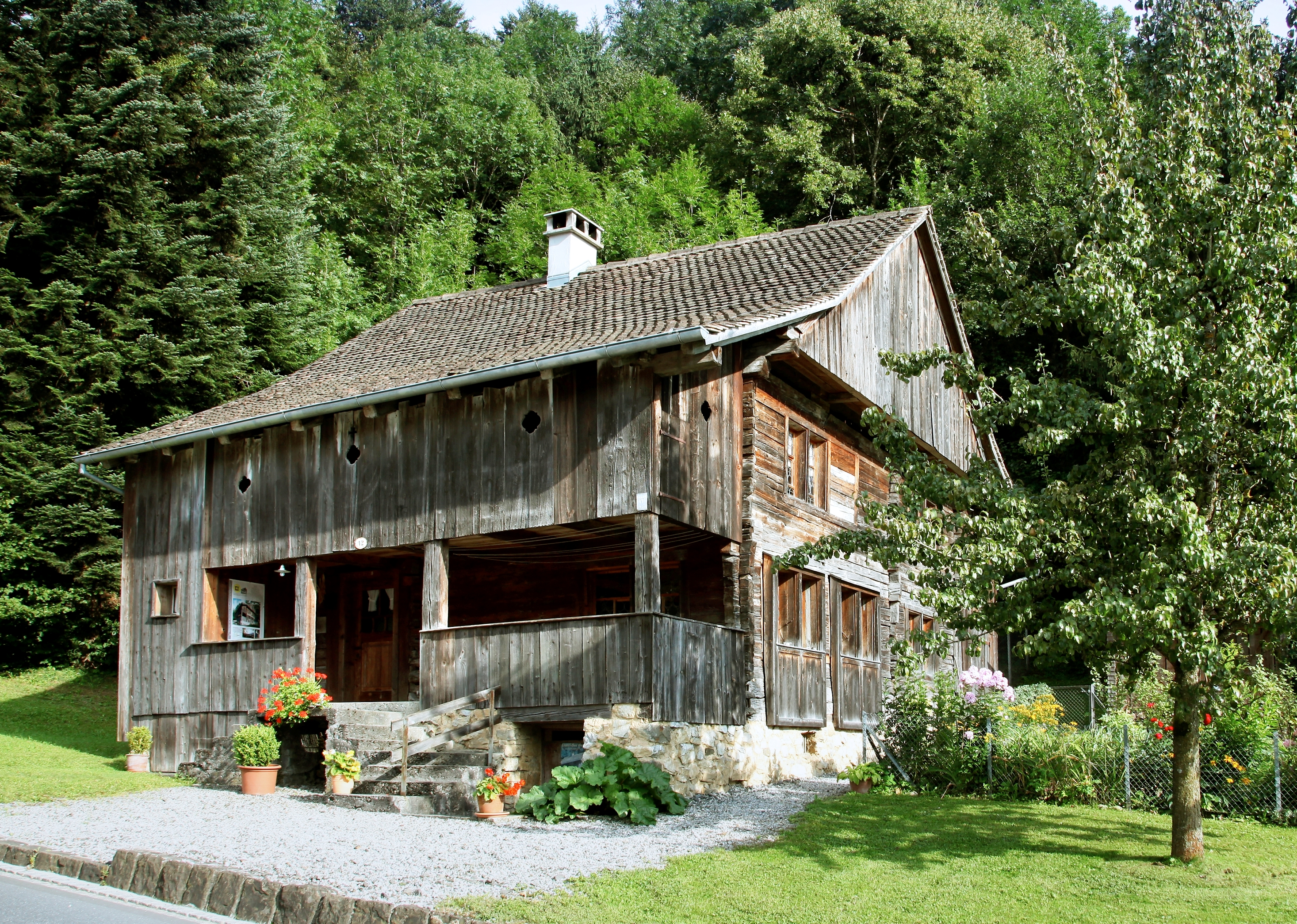 "Biedermannhaus" in Schellenberg, principality of Liechtenstein